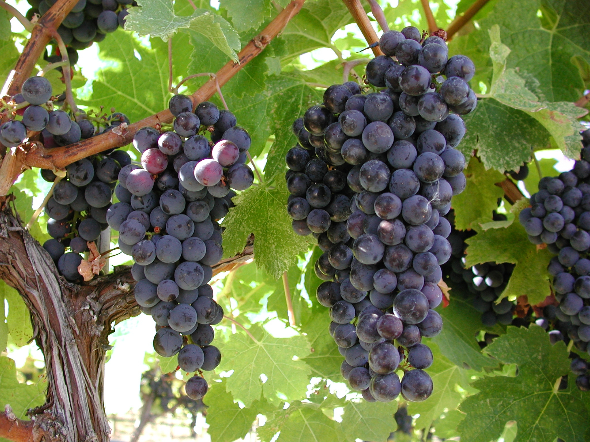 Grapes on vines in the Okanagan Valley of British Columbia Canada